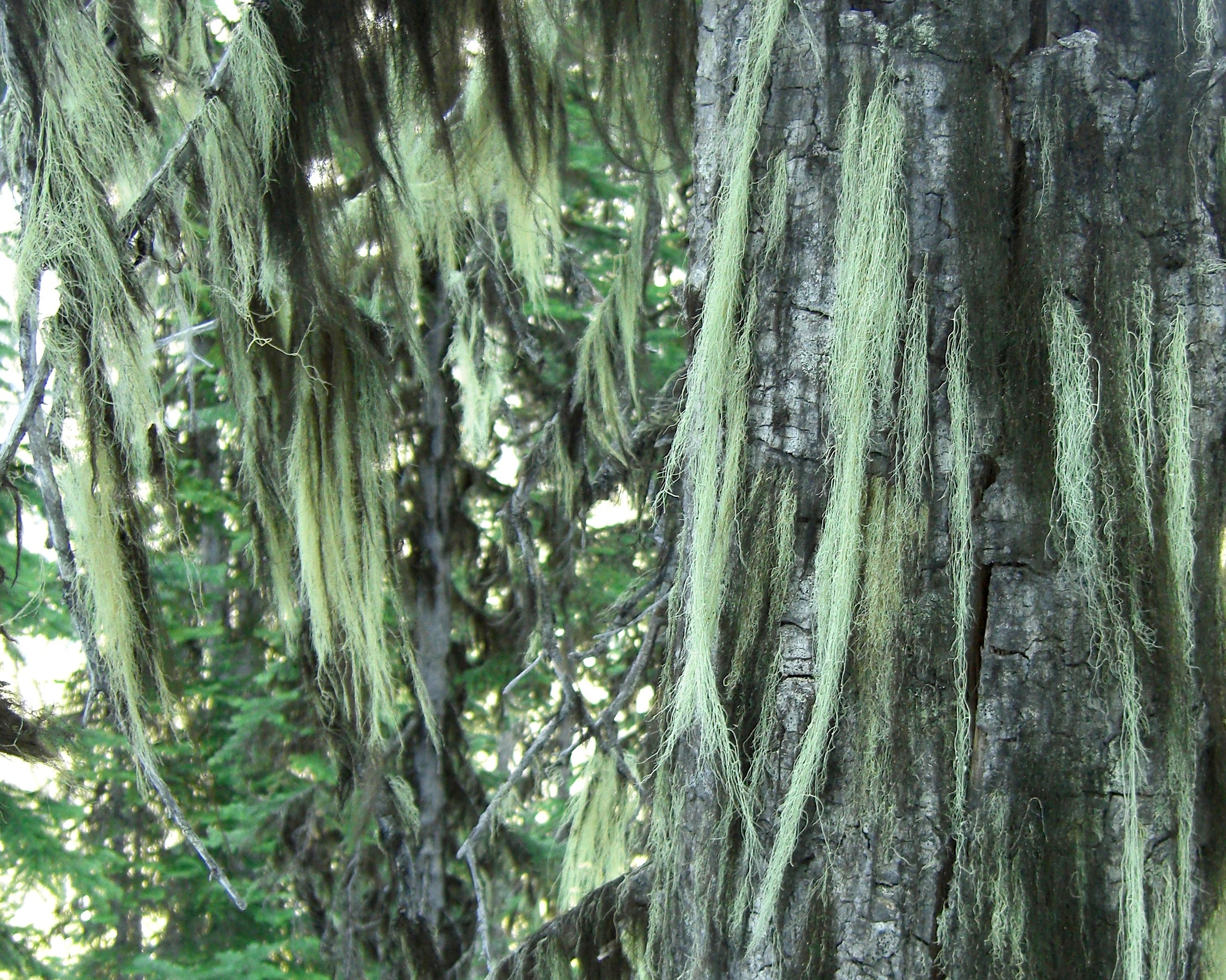 Alectoria sarmentosa ( Ach.) Ach. Location: Thompson Region, Wells Gray Provincial Park, British Columbia, Canada Observation Notes: Covering conifers in deep/sheltered forests at medium to high elevation. (Bryoria takes over where it is exposed, such as ridge tops or edges of forests.) For more information about this, see the observation page at Mushroom Observer.